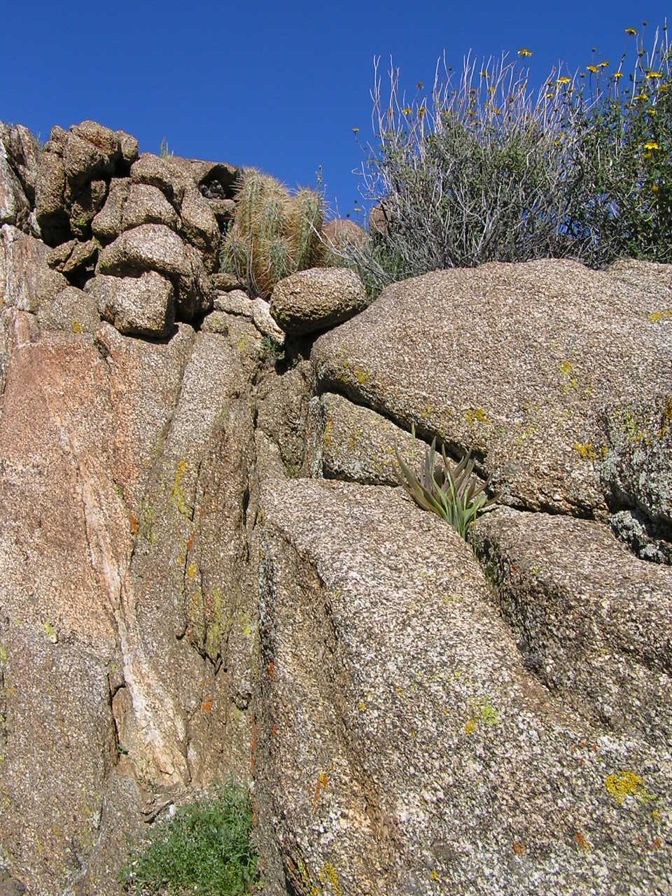 Rocks of the Anza-Borrego Desert Park, San Diego County, California, United States of America.